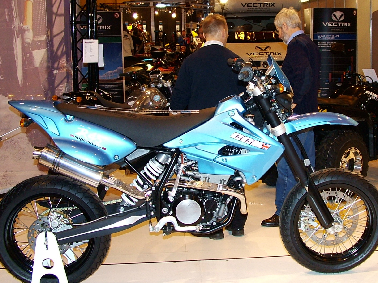 CCM R45 @ NEC Motorbike and Scooter Show 2007